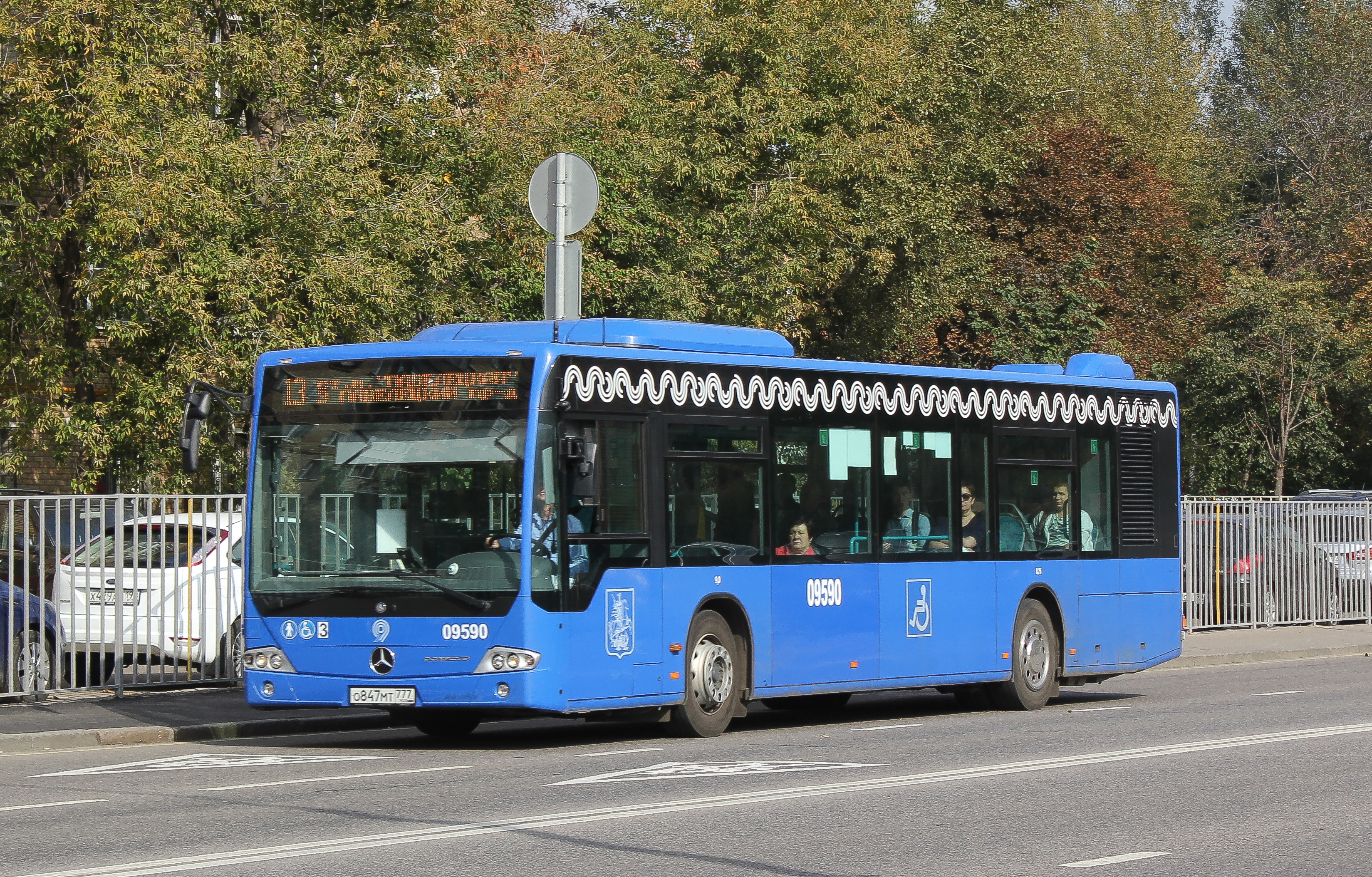 Mercedes-Benz O345